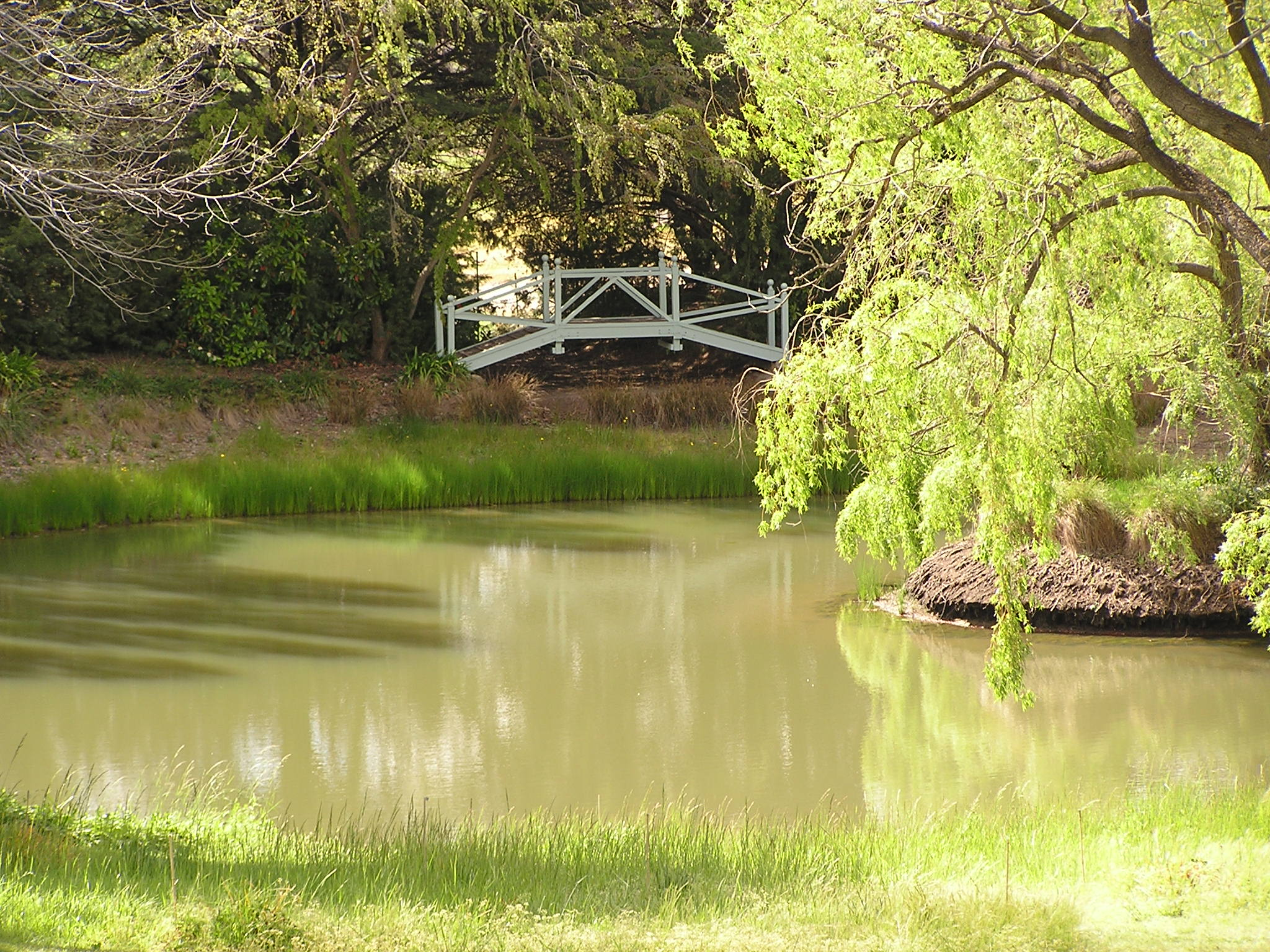 The garden of Markdale at Binda near Crookwell, New South Wales, Australia. The garden was designed by Edna Walling in 1947. It surrounds a homestead built in 1921 and restored by the architect Professor Leslie Wilkinson.